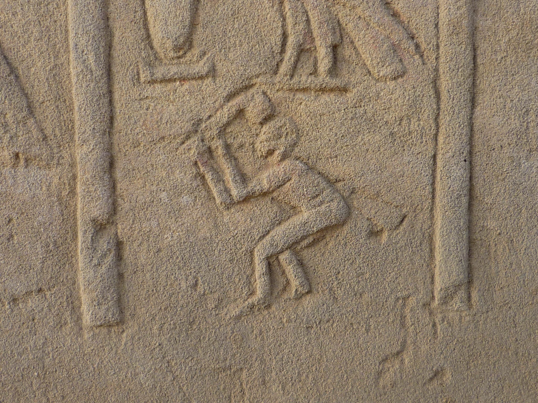 Relief of worker in Nectanebo court, Luxor Temple, Egypt